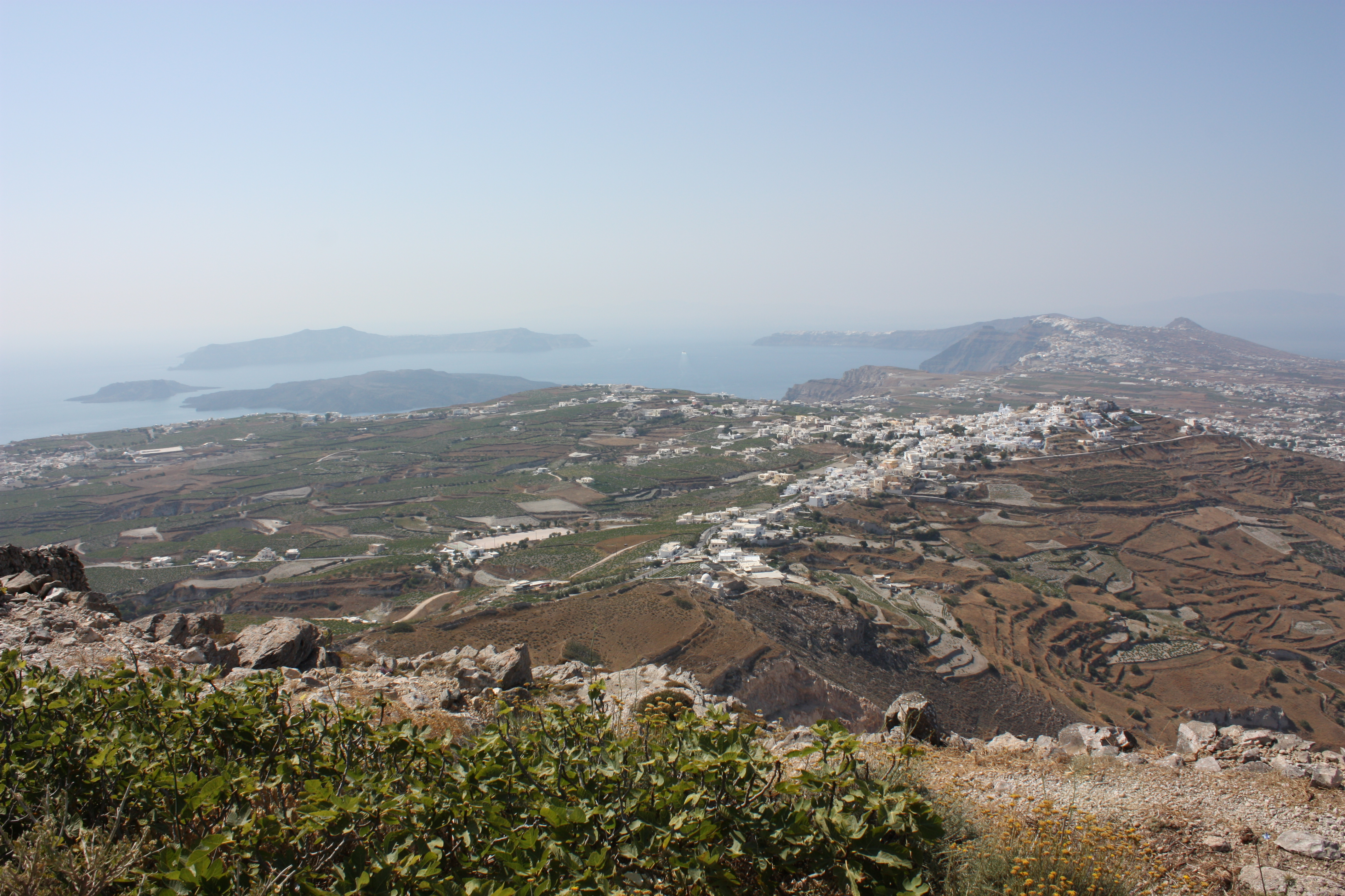 Santorini, from Mt Profitis Ilias